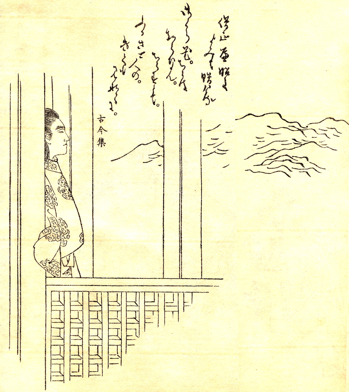 Koretaka Shinno(惟喬親王) was a member of the Imperial family in the Heian Period.This picture was drawn by Kikuchi Yosai（菊池容斎） who was a painter in Japan.